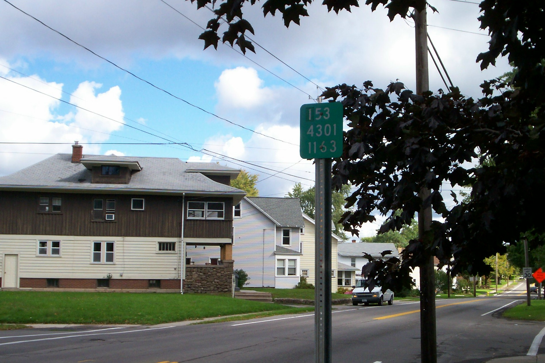 Photo of a New York State Route 153 reference marker in East Rochester, New York. This marker is one of several in the area that was initially a NY 253 reference marker prior to 1983, as evidenced by the dark green area enclosing the "1". Taken September 26, 2006 by myself.